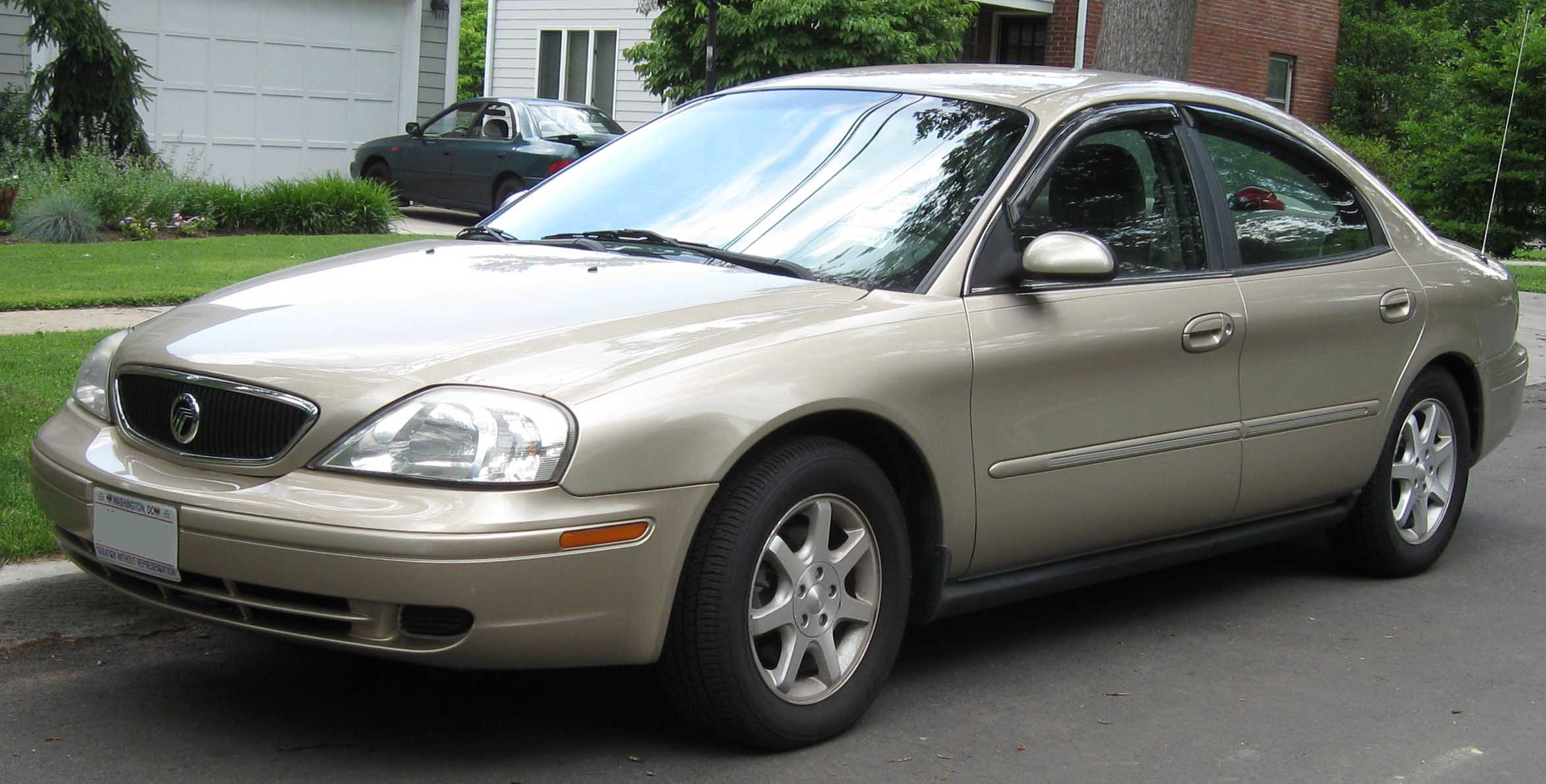 2000-2003 Mercury Sable photographed in Bethesda, Maryland, USA.